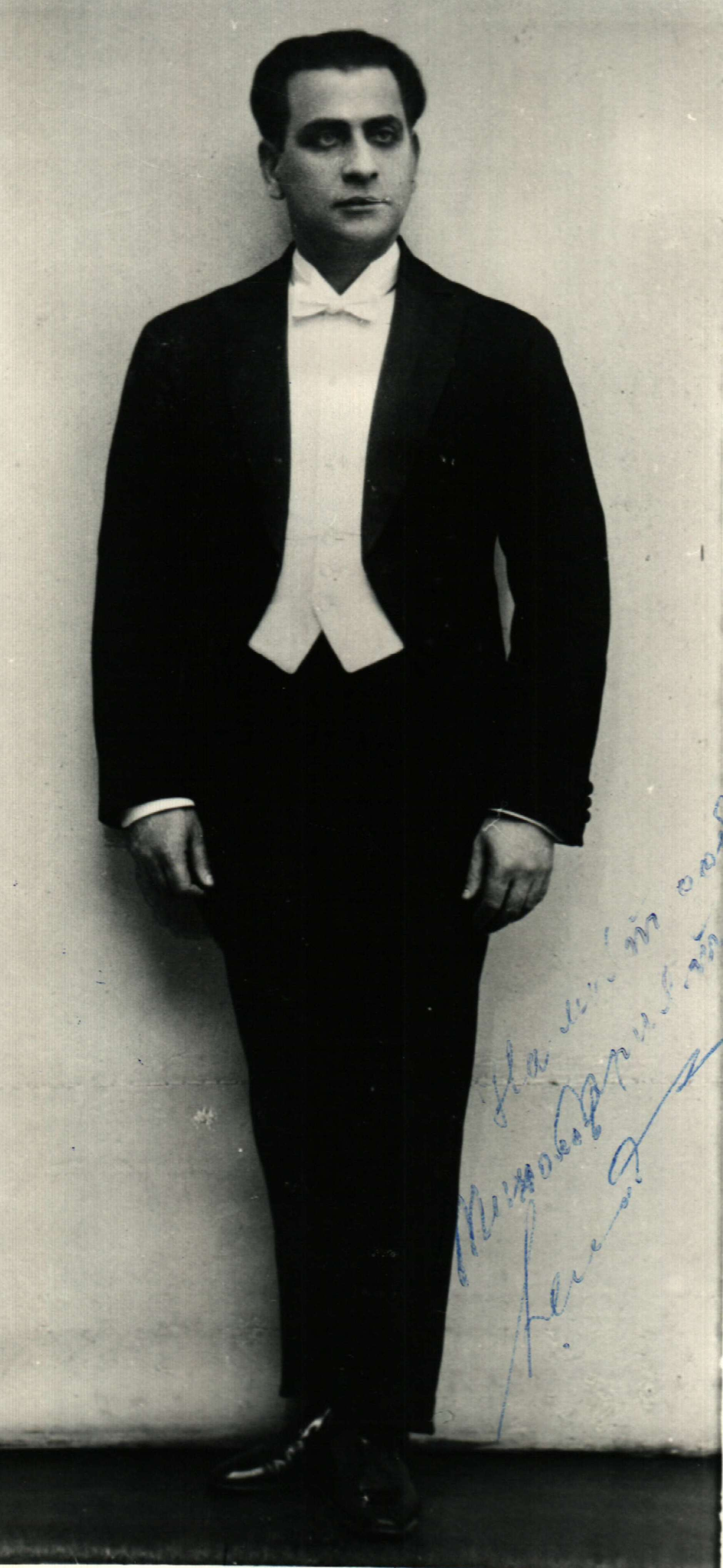 Bulgarian actor Angel Sladkarov (1892-1977)